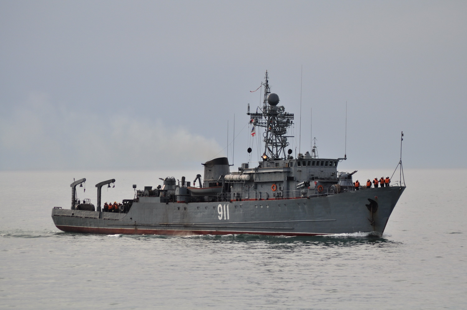 Ivan Golubets underway nearby Yuzhnyy Mol in Sevastopol 20 April 2017